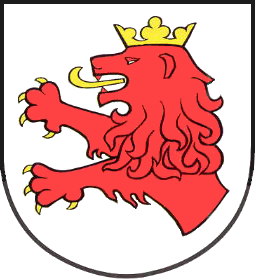 Coat of arms of the municipality Steinhorst in Schleswig-Holstein, Germany.